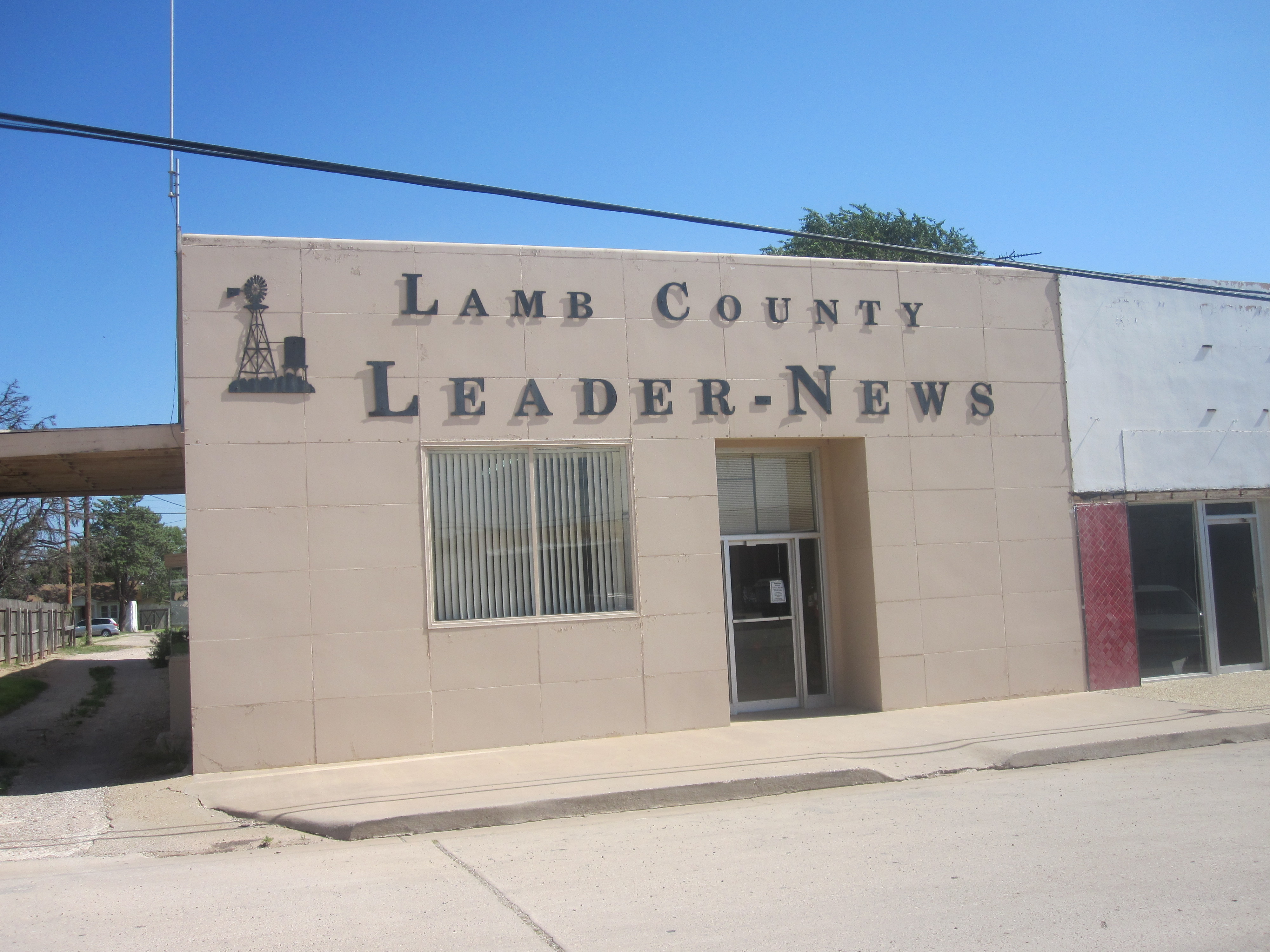 I took photo in Littlefield, TX, with Canon camera.